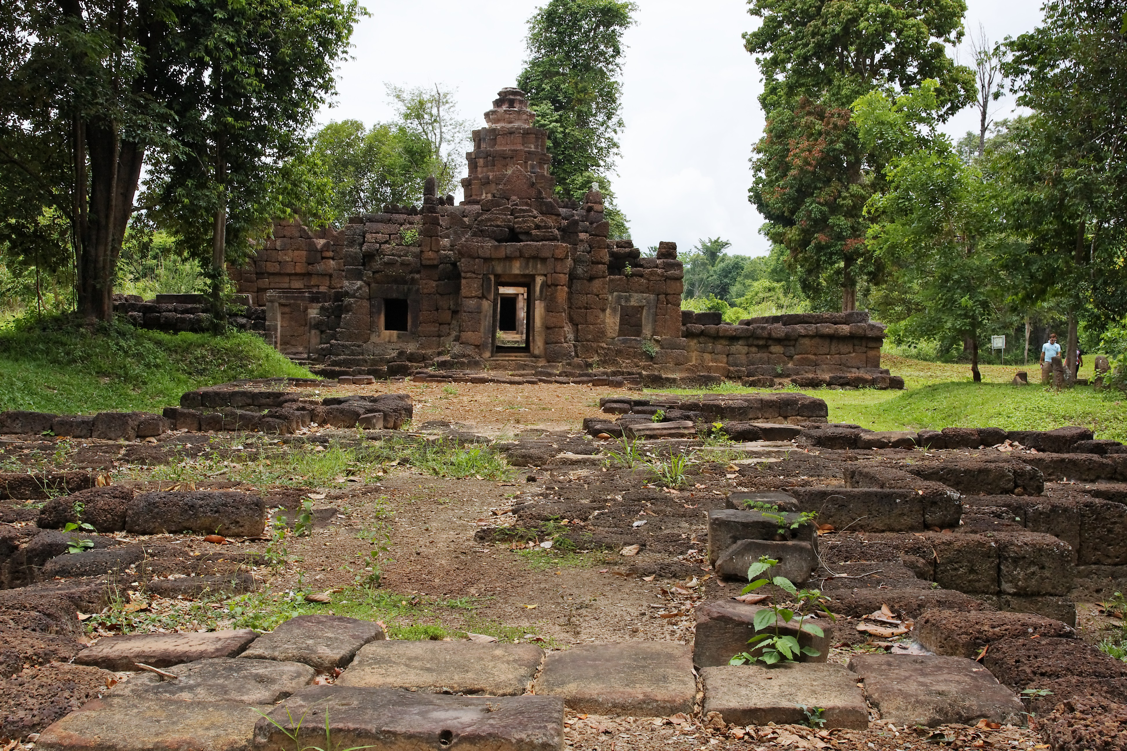 Prasat Ta Muen Toch, Thailand